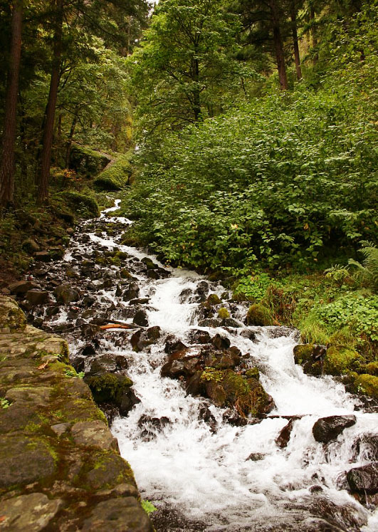 Wahkeena Falls, in the Columbia River Gorge, Oregon, United States.